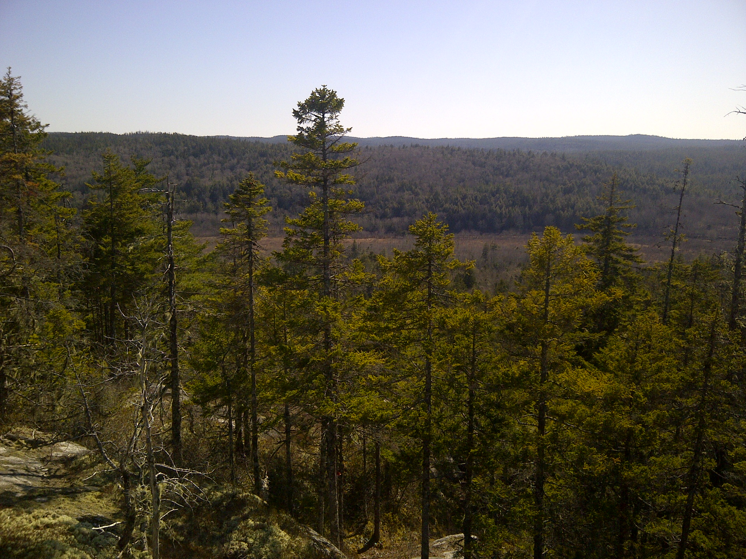 Typical landscape and forests of the Eastern Shore Granite Ridge.